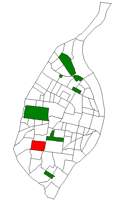 Map of St. Louis Neighborhood #14